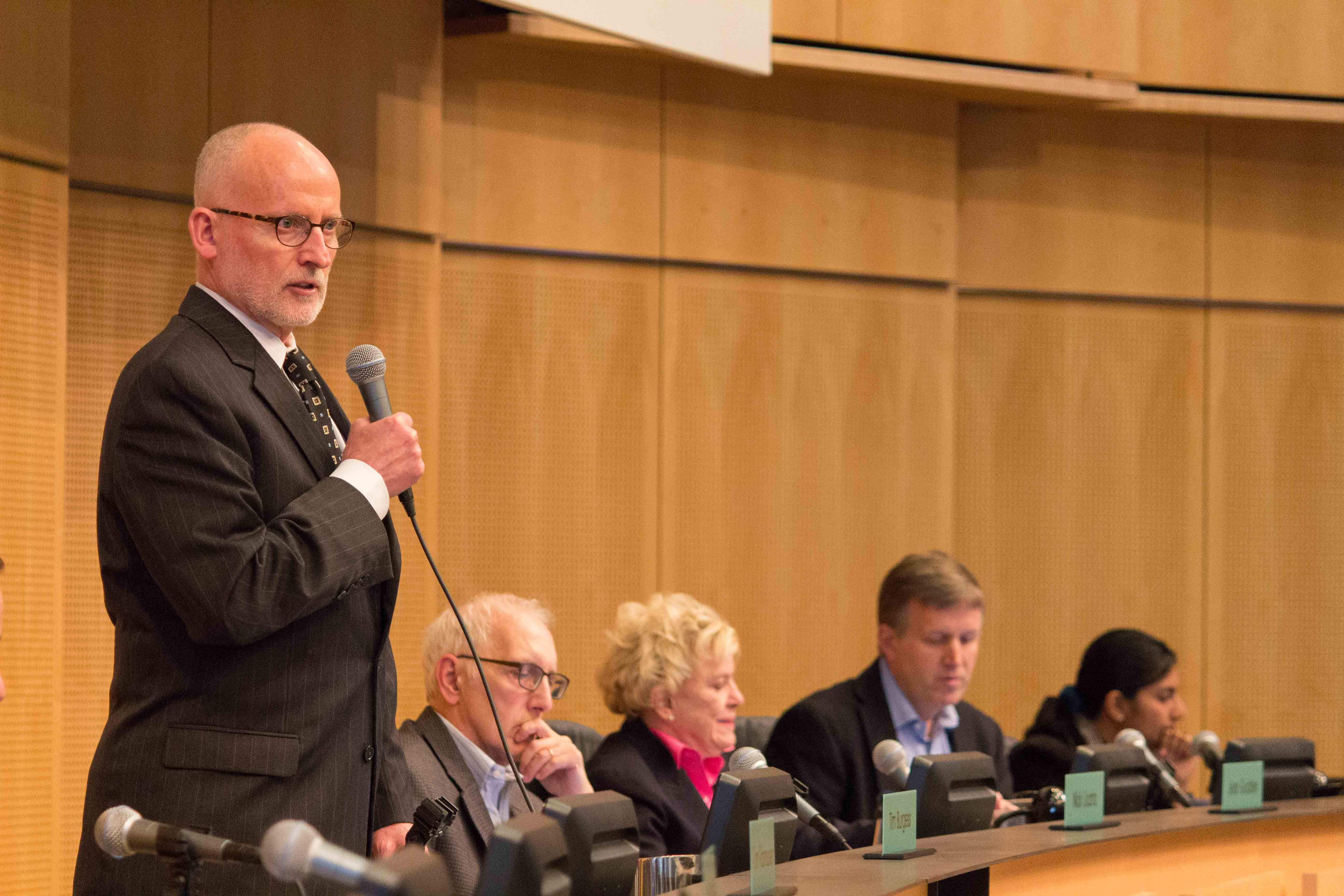 Councilmember Burgess